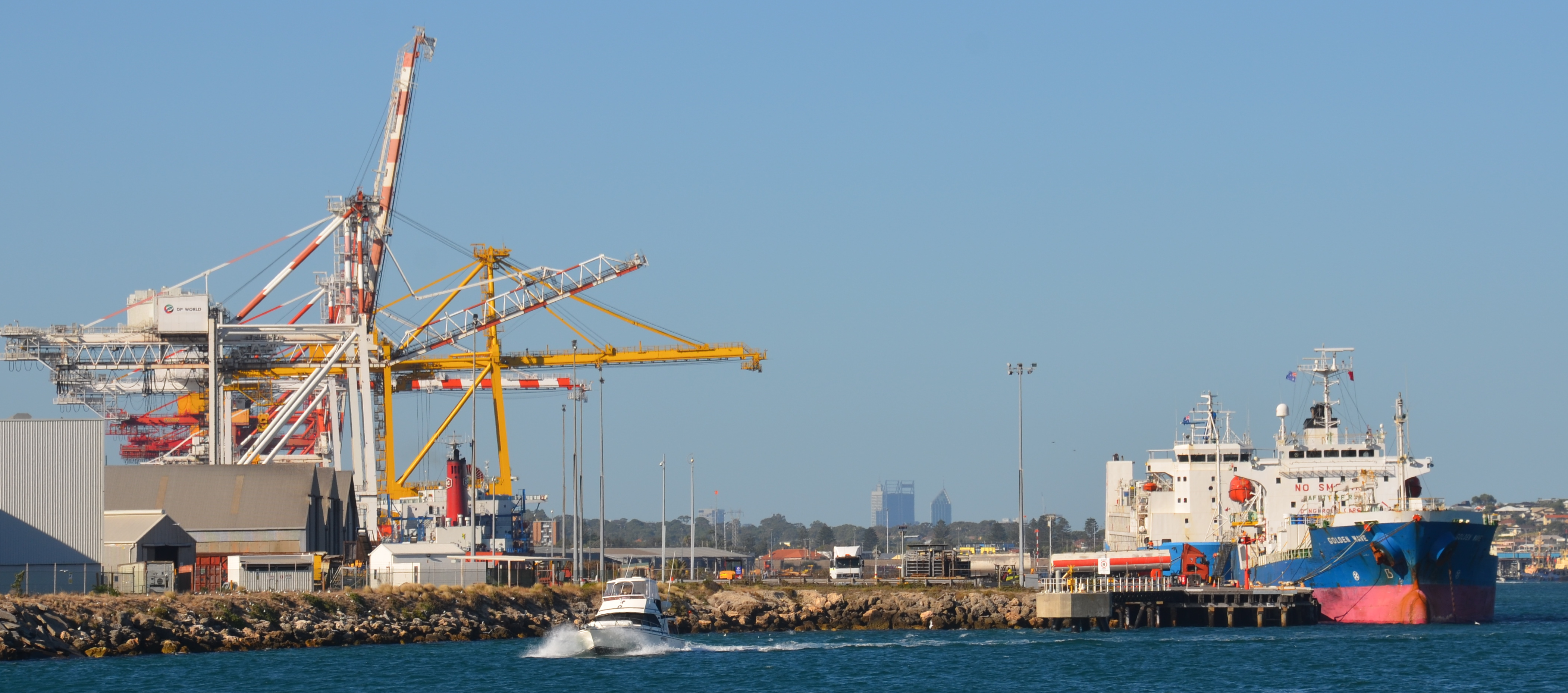 Near entrance of Fremantle Harbour, looking towards Perth city, at rear, with buildings on Perth skyline obvious on horizon